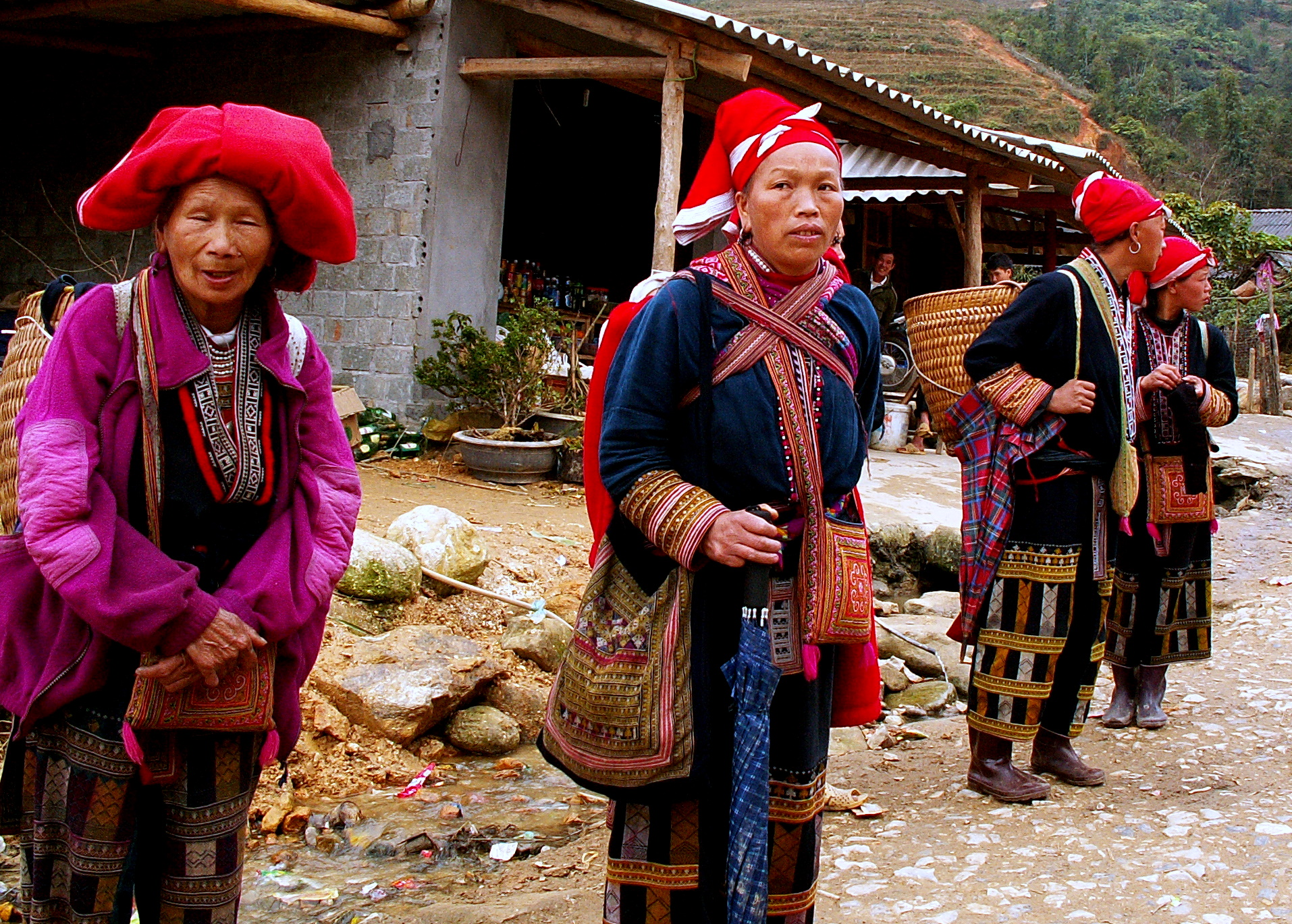 Red Dao in Vietnam